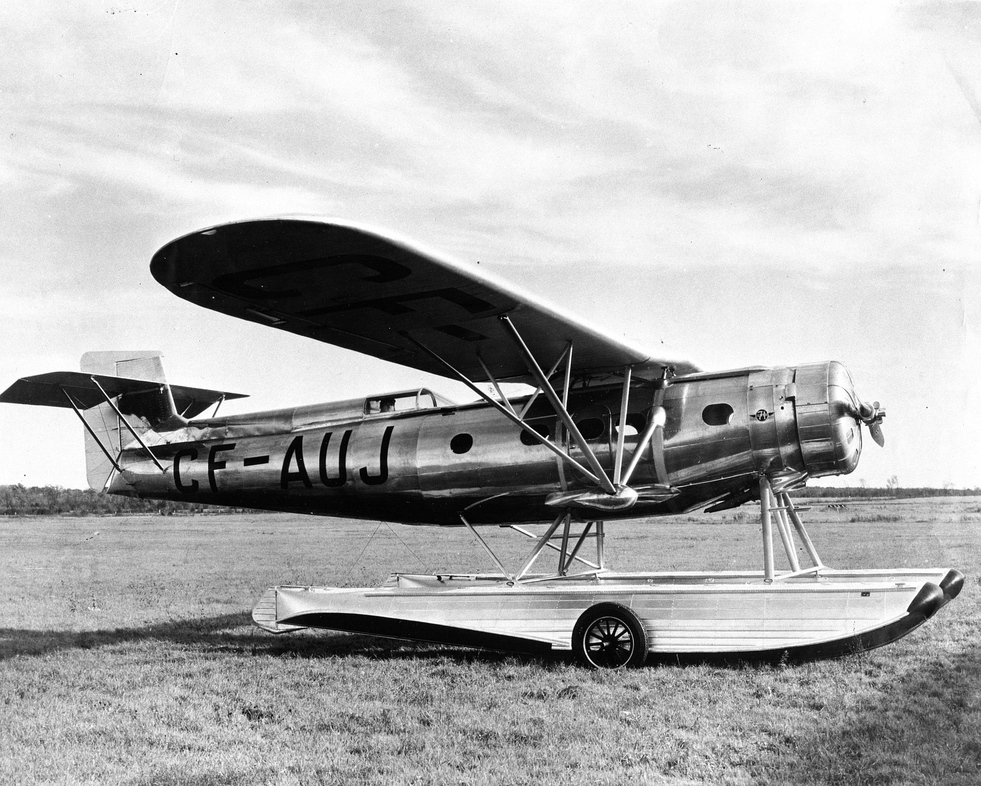 Catalog #: 00066425 Manufacturer: Fairchild Designation: Super 71 Official Nickname: Notes: Canada Repository: San Diego Air and Space Museum Archive